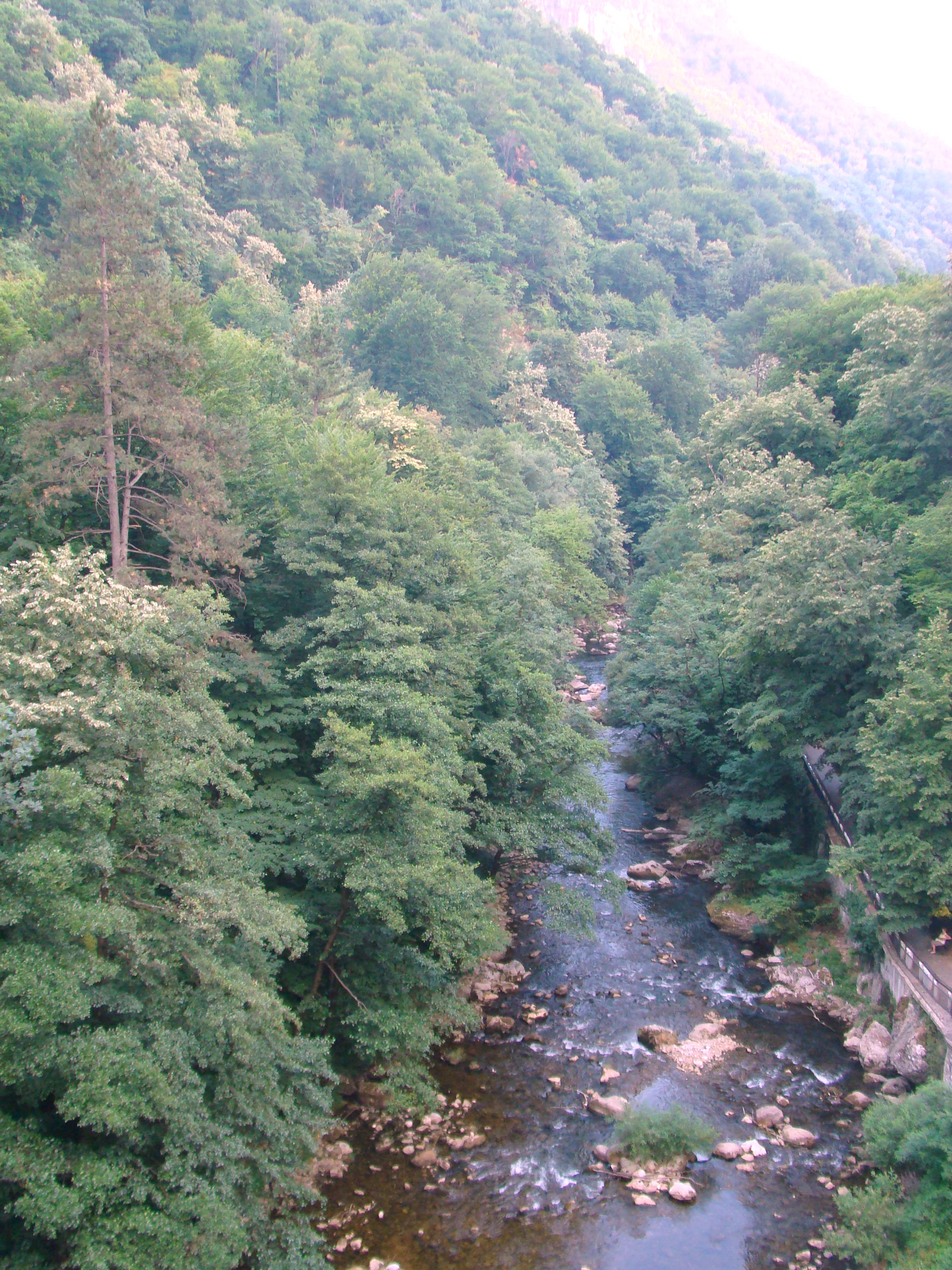 Cerna river